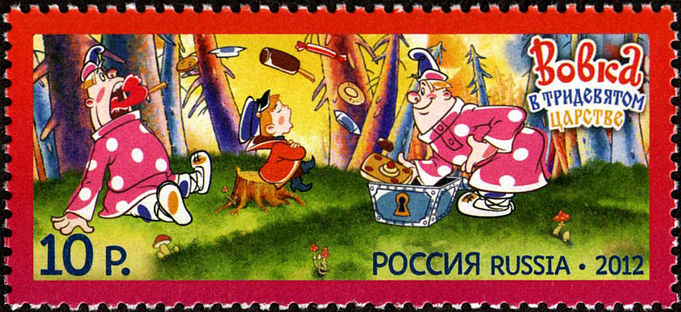 Soviet animated cartoons.Vovka in a Faraway Kingdom. 1965. Soyuzmultfilm. Directed by Boris Stepantsev (1929—1983).The stamp of Russia, 10.00 rubles, 3 December 2012, PTC Marka Catalogue No 1655. Coated paper. Offset printing, multicoloured. Perforation: comb 12:12½. Size of the stamp: 58×26 mm. Print run: 200,000.